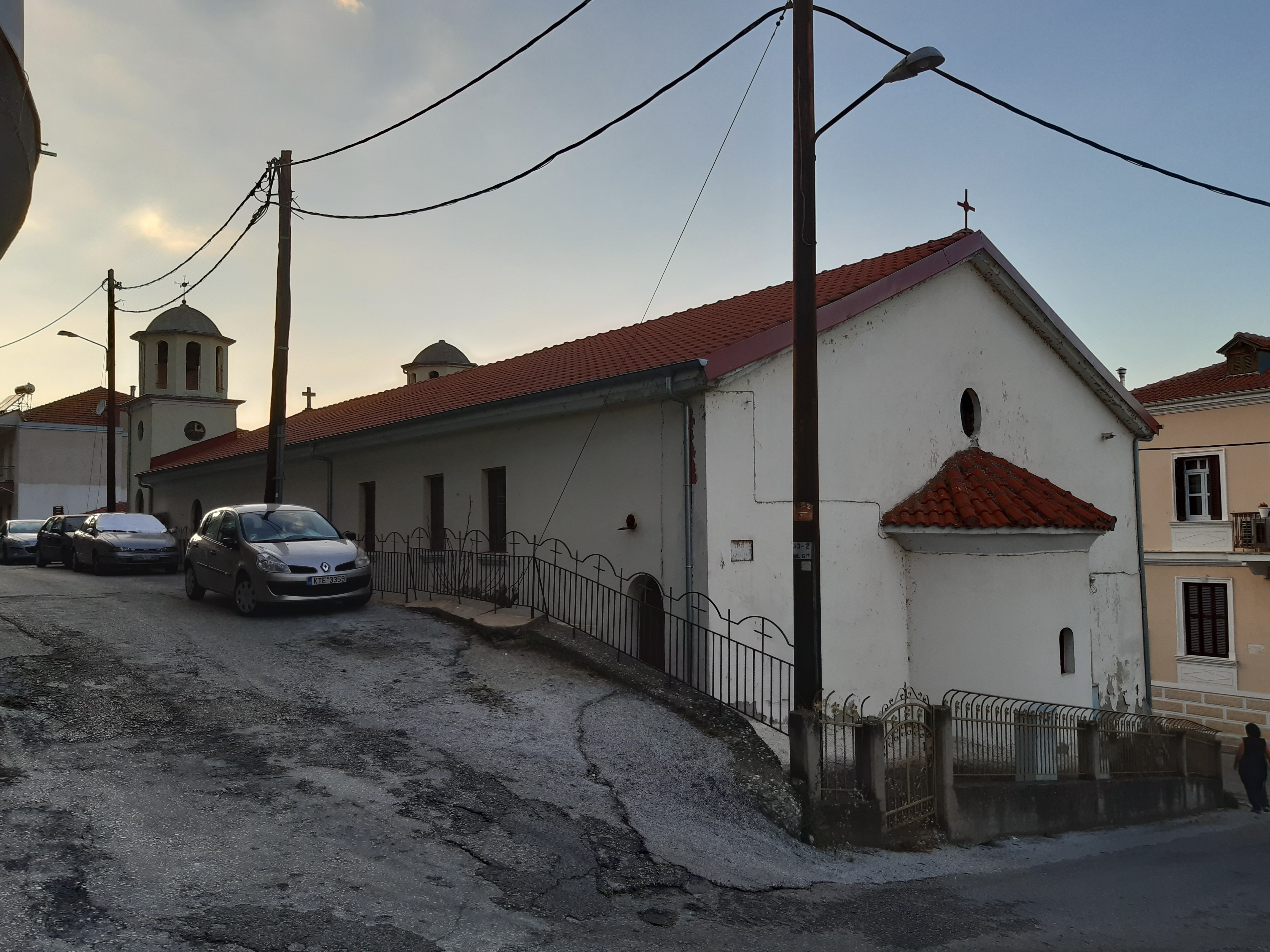 Saint George of Eleusa Church, Kastoria